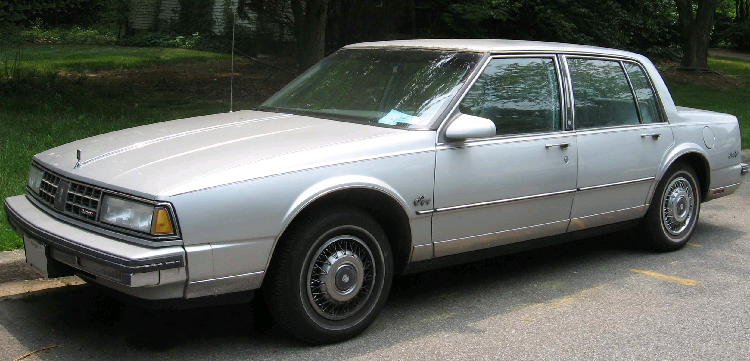 1987 Oldsmobile 98 photographed in USA.